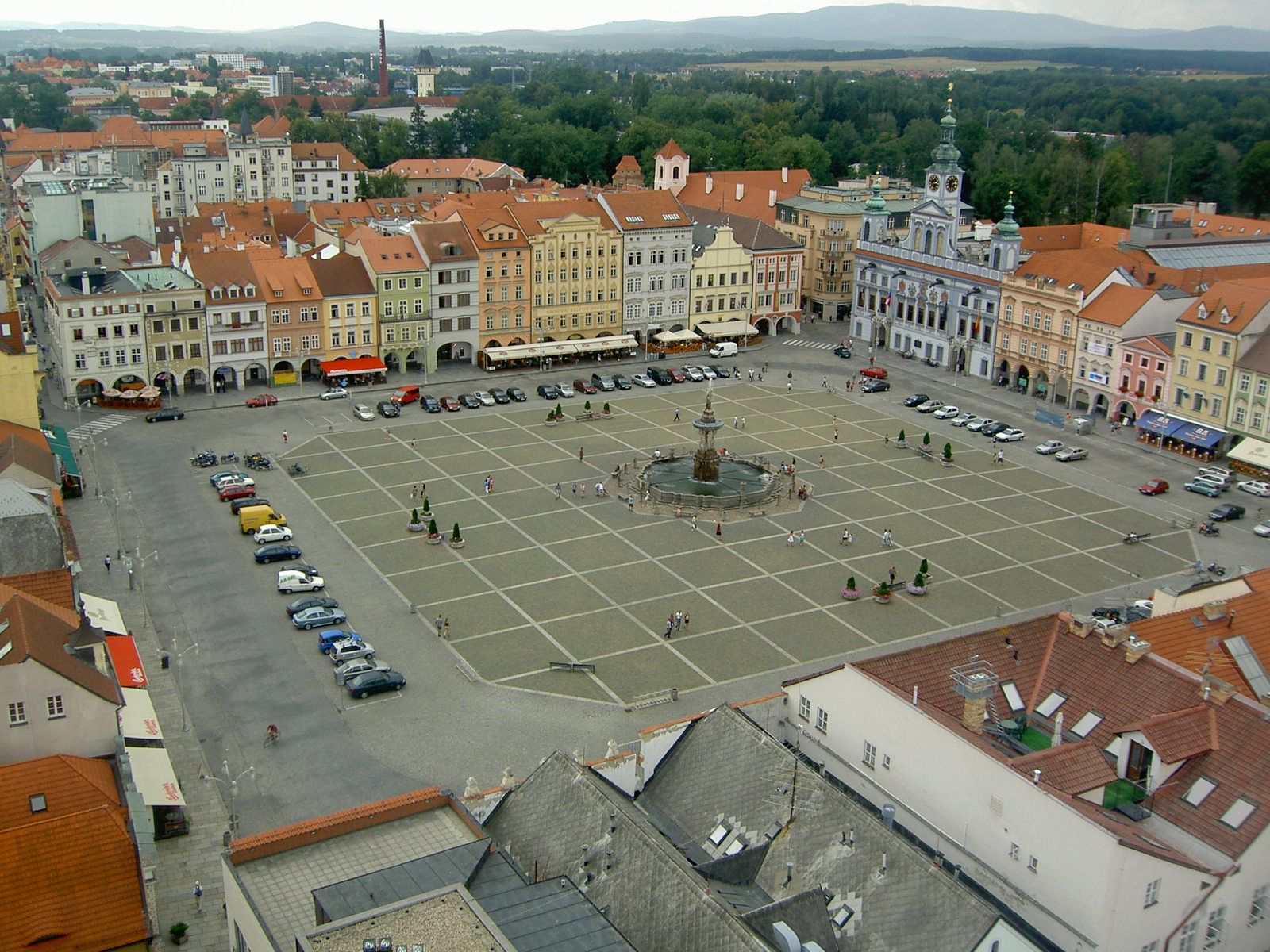 Main square (Náměstí Přemysla Otakara II.) of České Budějovice, Czech Republic, as seen from the Black Tower